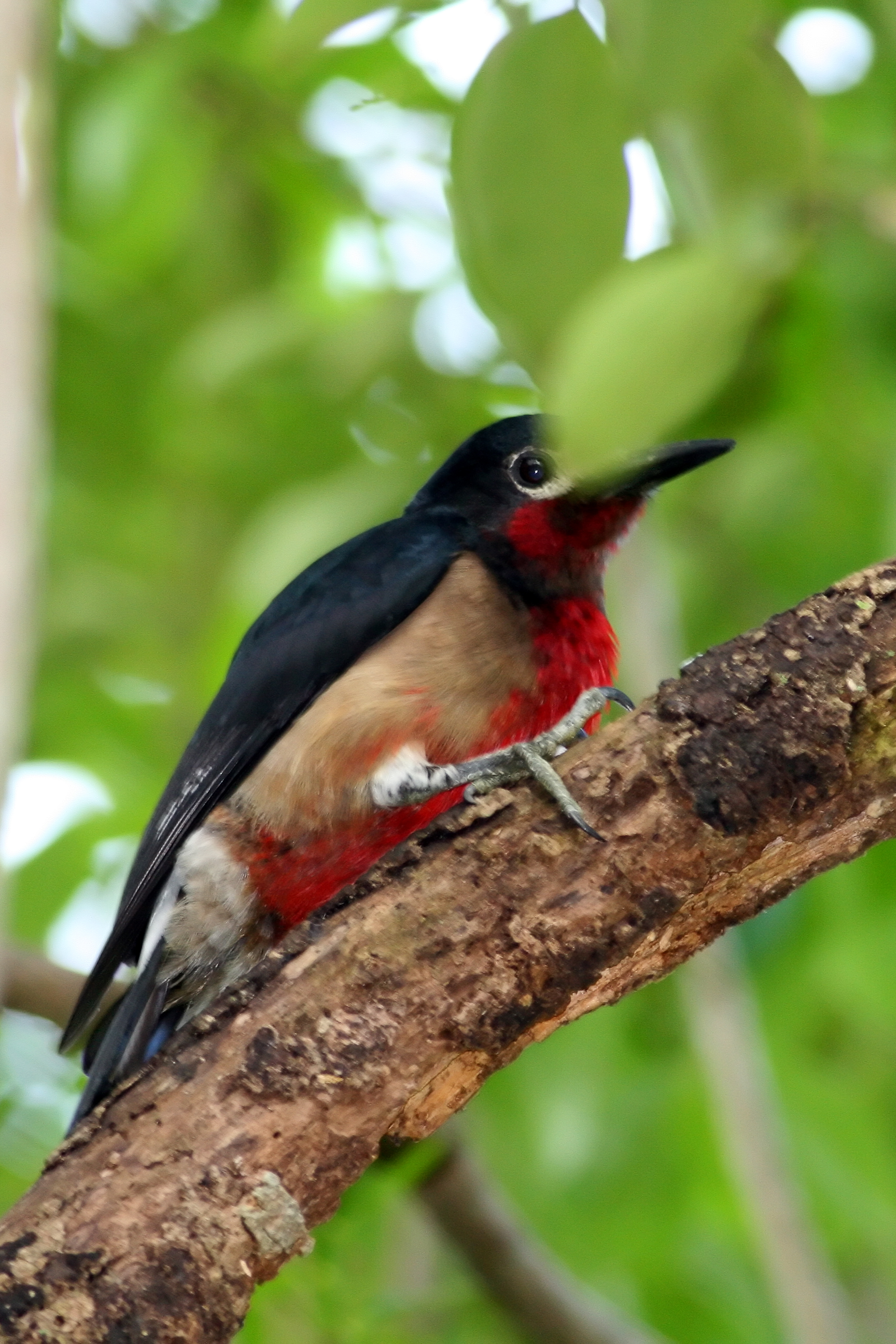 Puerto Rican Woodpecker (Melanerpes portoricensis) near Coamo, Puerto Rico.